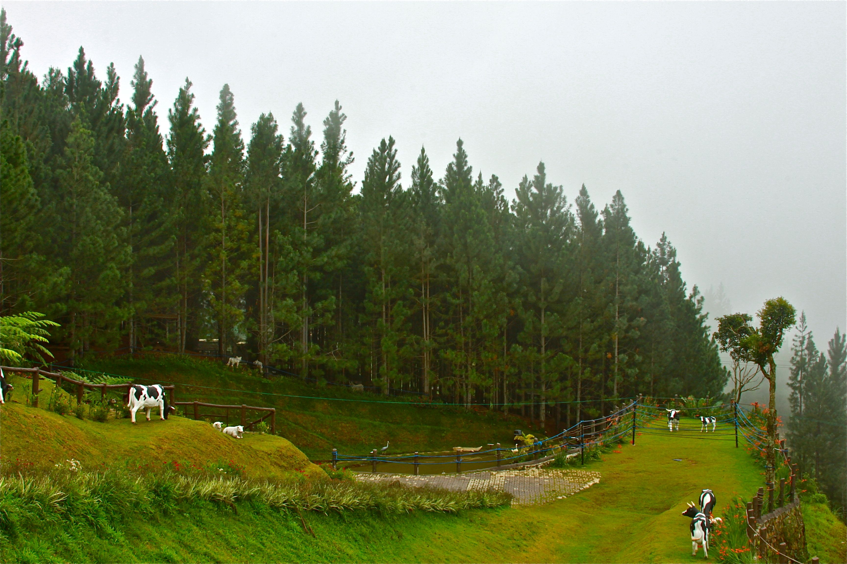 A view of the Forest Camp in Dahilayan Bukidnon as the morning fog subsides